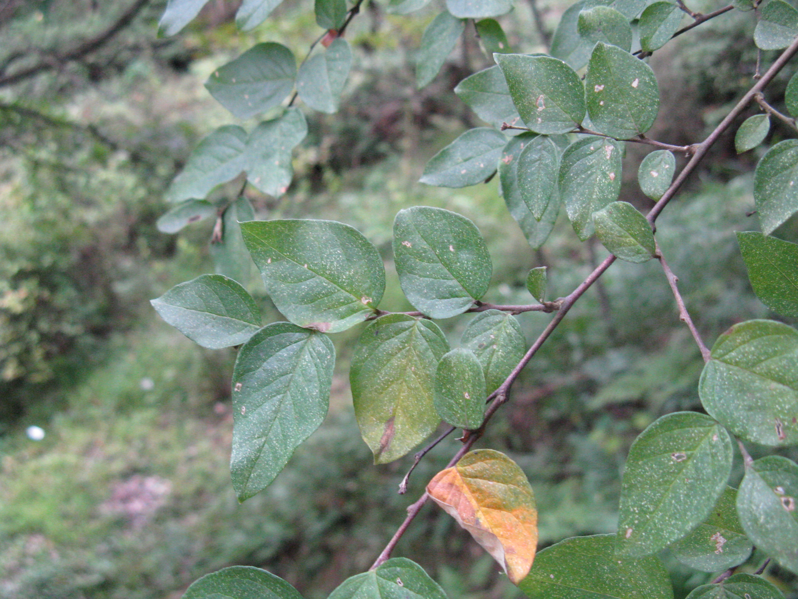 Scientific name Diplomorpha sikokiana